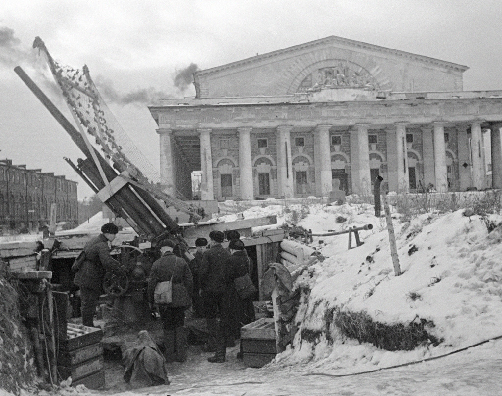 “Antiaircraft-gunners ready for battle”. Antiaircraft-gunners firing at the enemy in besieged Leningrad.